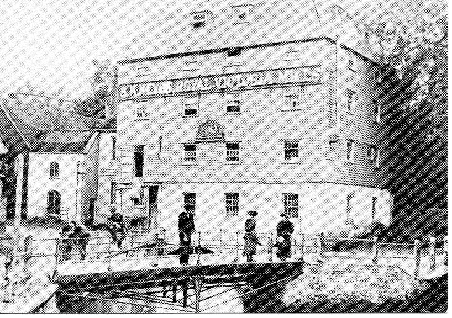 Victoria Mills, Dartford c1900. Reproduction postcard by Kent County Library